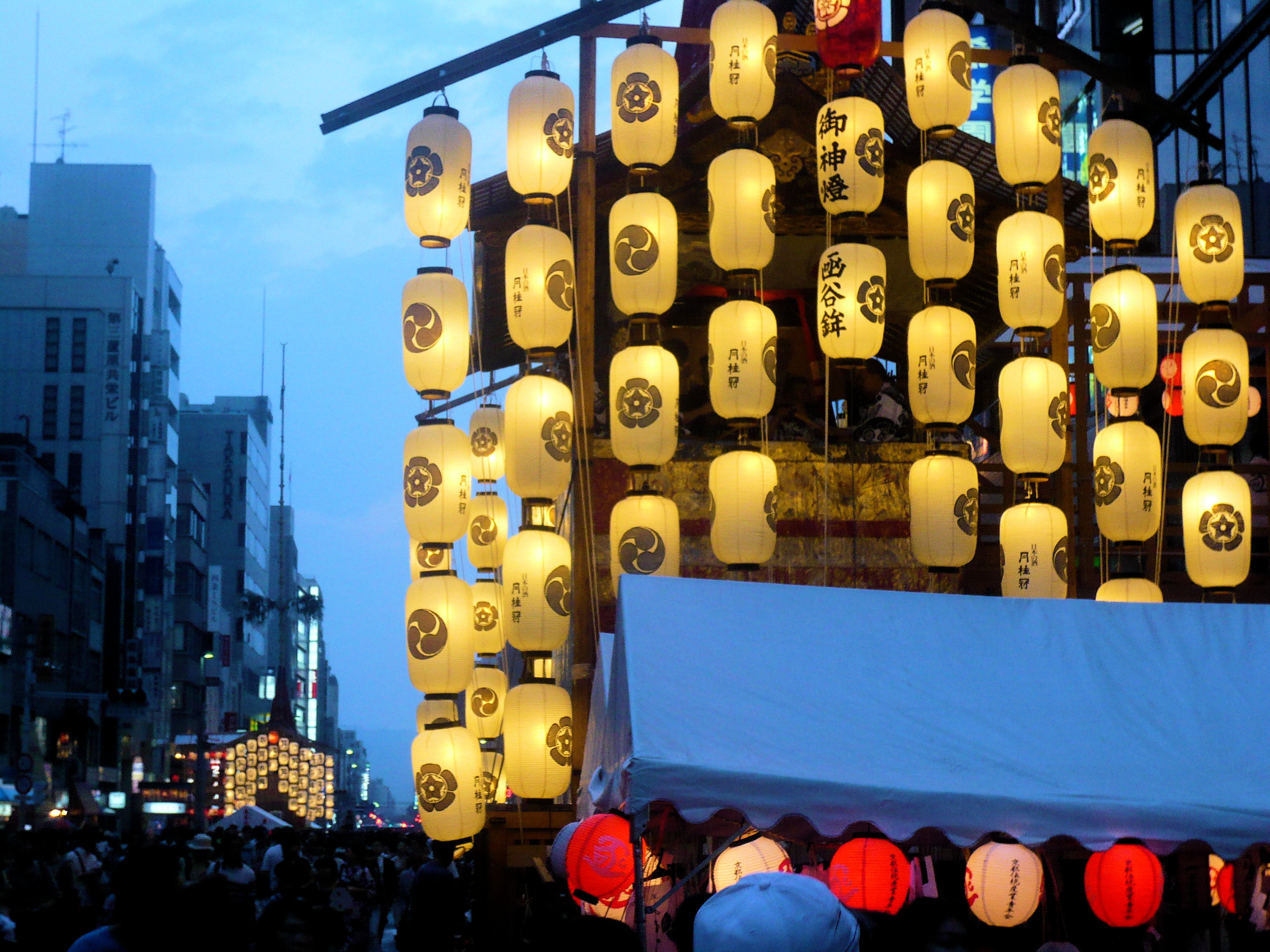 Yoiyama - The Gion Festival - July 14, 2008